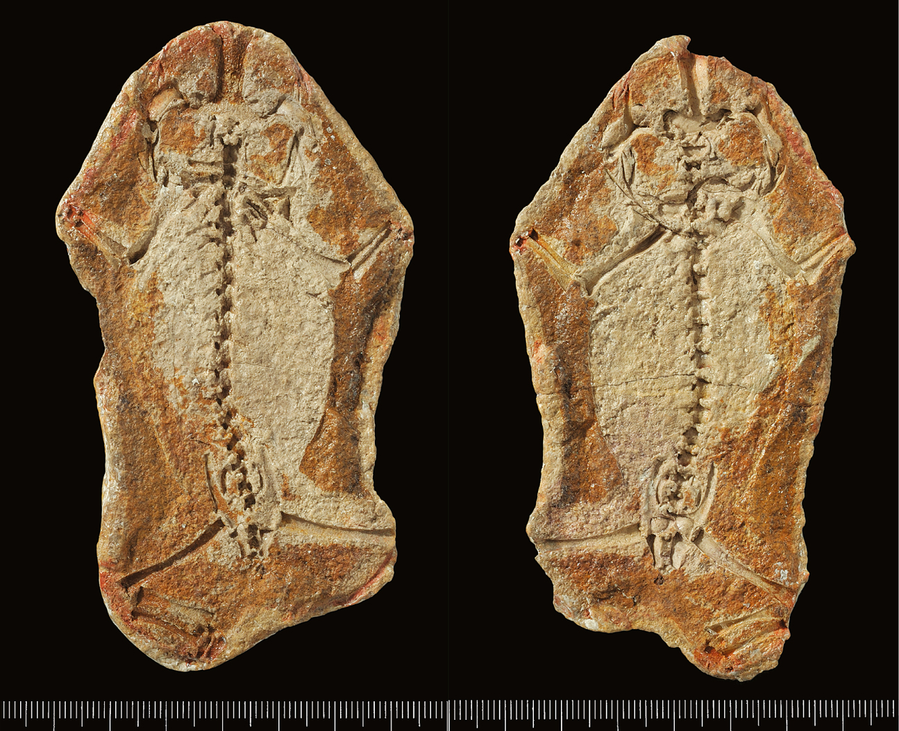 Fig. 1. Dorsal (left) and ventral (right) parts of the nodule containing the fossil. Major divisions of the scale are in cm.